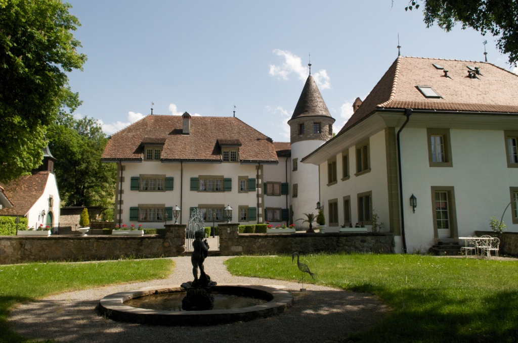 The Château de la Grande Riedera, near Fribourg/Switzerland